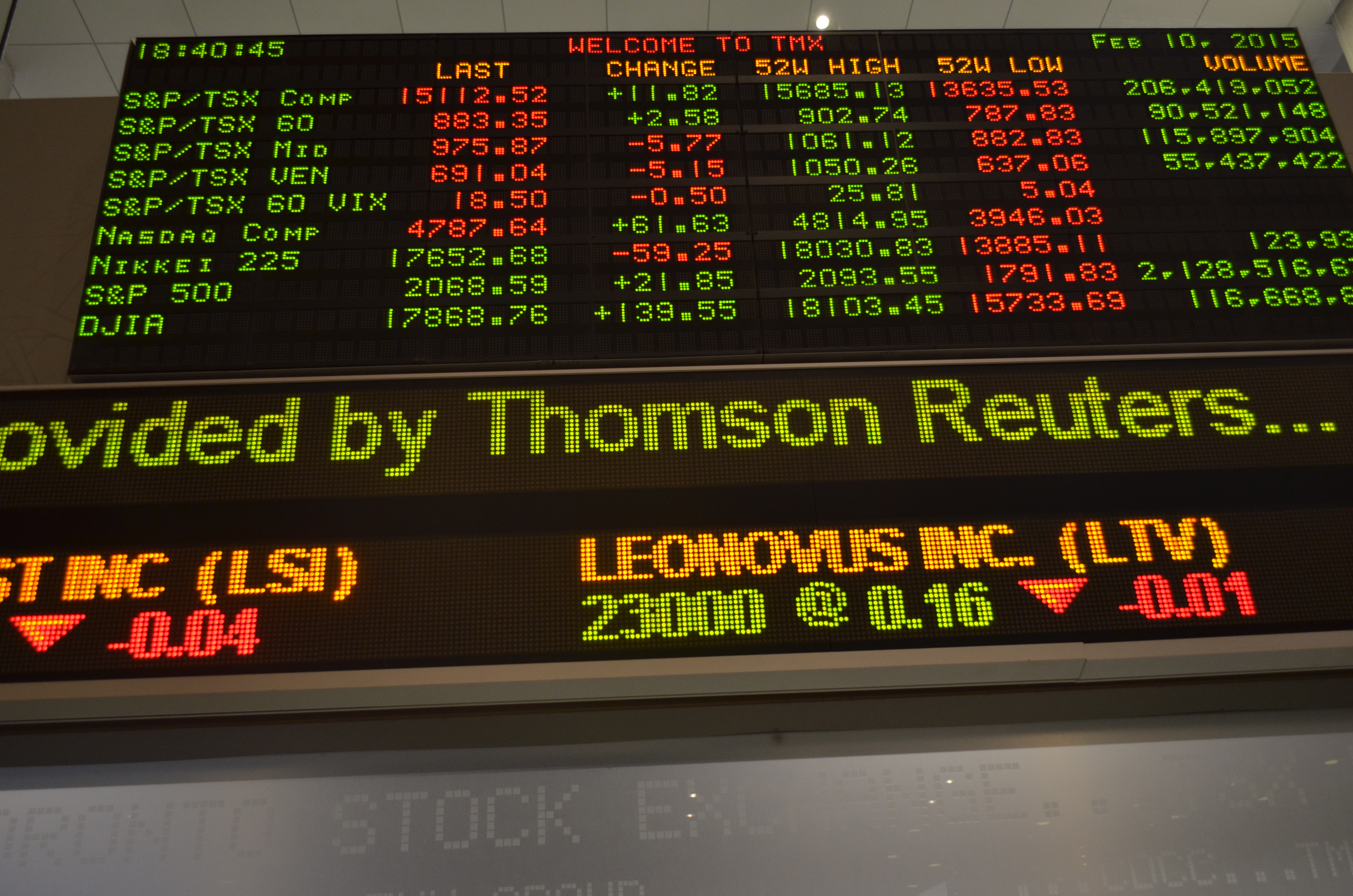 S&P, TSX, TMX Group